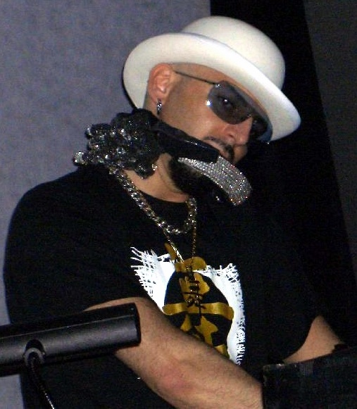 Gigi D'Agostino in Rimini, Summer 2005. (author: Sárközi Nóra)